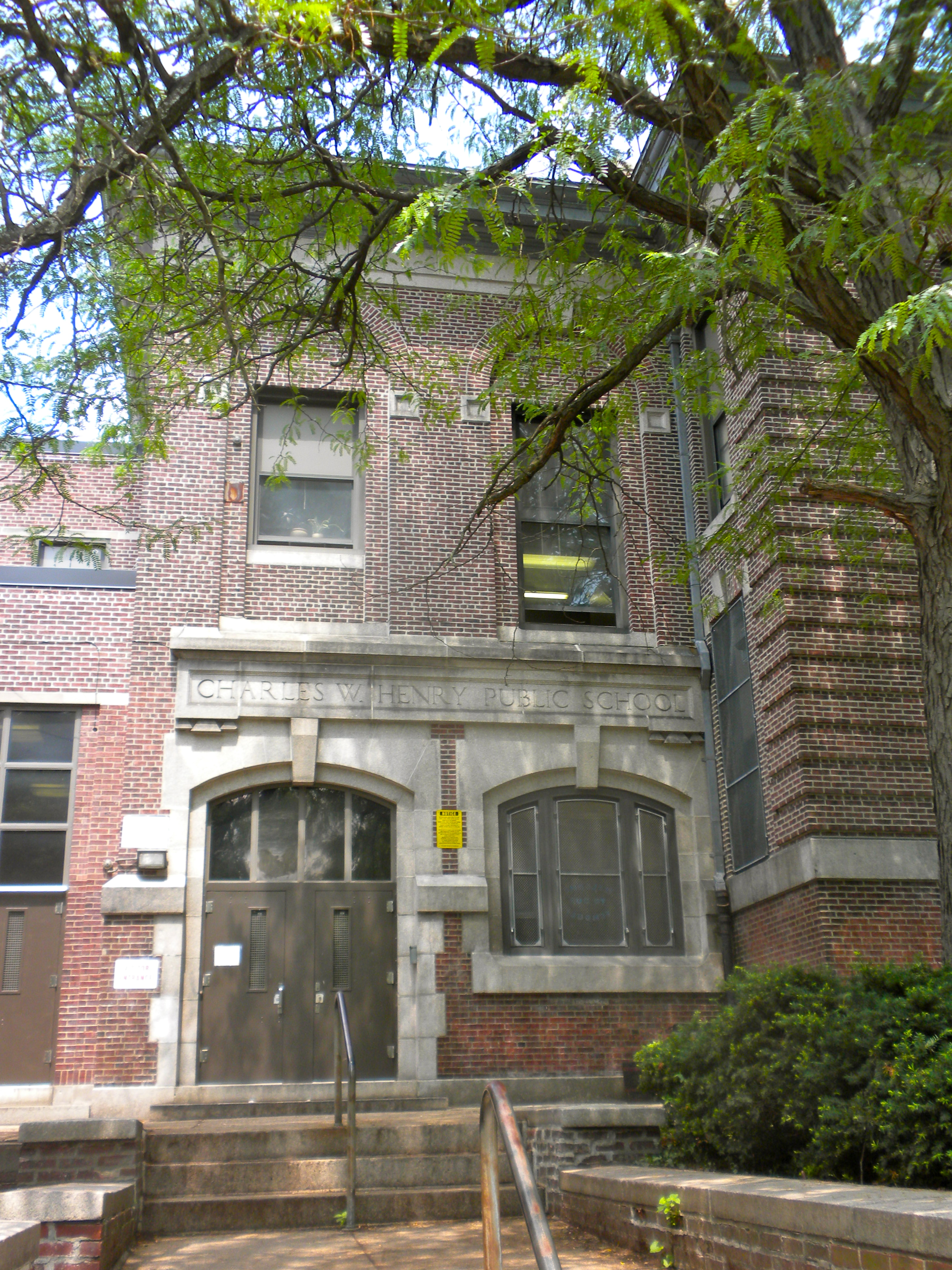 Charles Wolcott Henry School on NRHP since November 18, 1988. At 601 Carpenter Lane in Mount Airy neighborhood of Northwest Philadelphia.